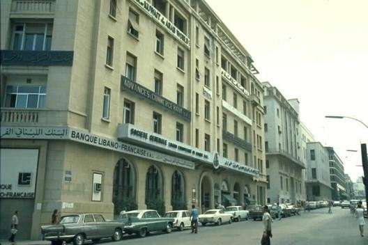 Banks Street, Beirut - 1970